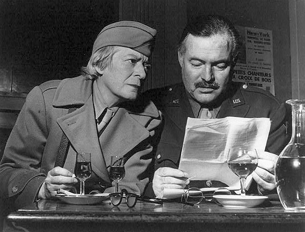 Ernest Hemingway with American writer Janet Flanner. Both wears U.S.A. military uniforms, as war correspondants in the liberation of Paris in the end of Worl War II.[1]